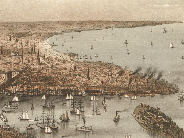 This image shows Red Hook Brooklyn from the base of the Brooklyn Bridge to the end of the Island. Note the heavy industrial use of the area.